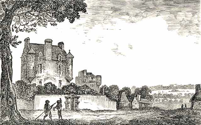 An image of Lauriston Castle in 1775